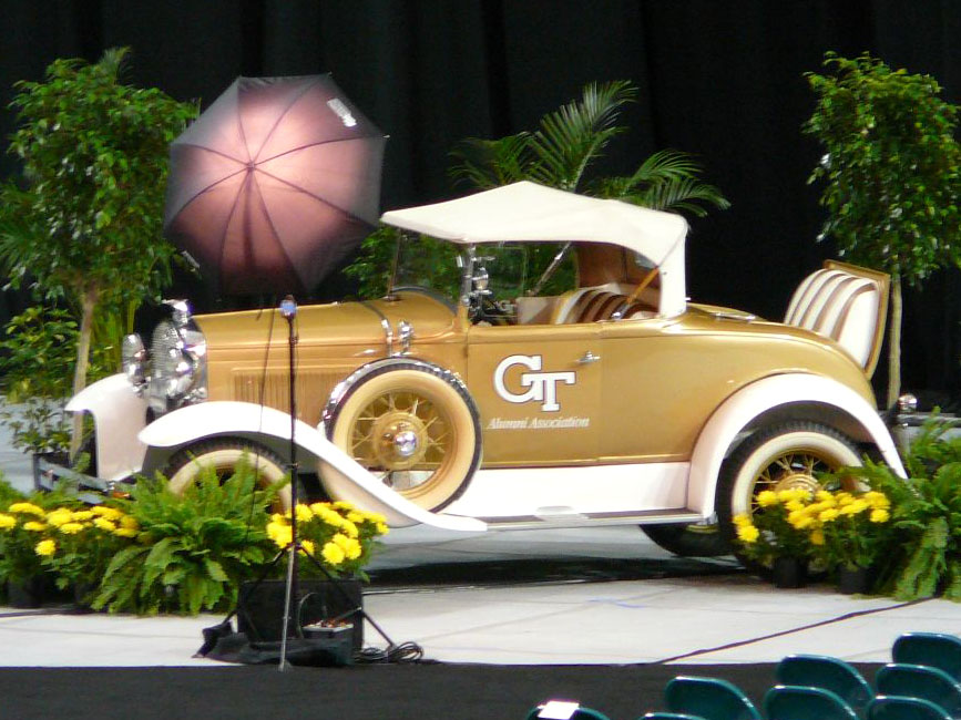 Cropped version of Image:Alumni Association Ramblin' Wreck.jpg